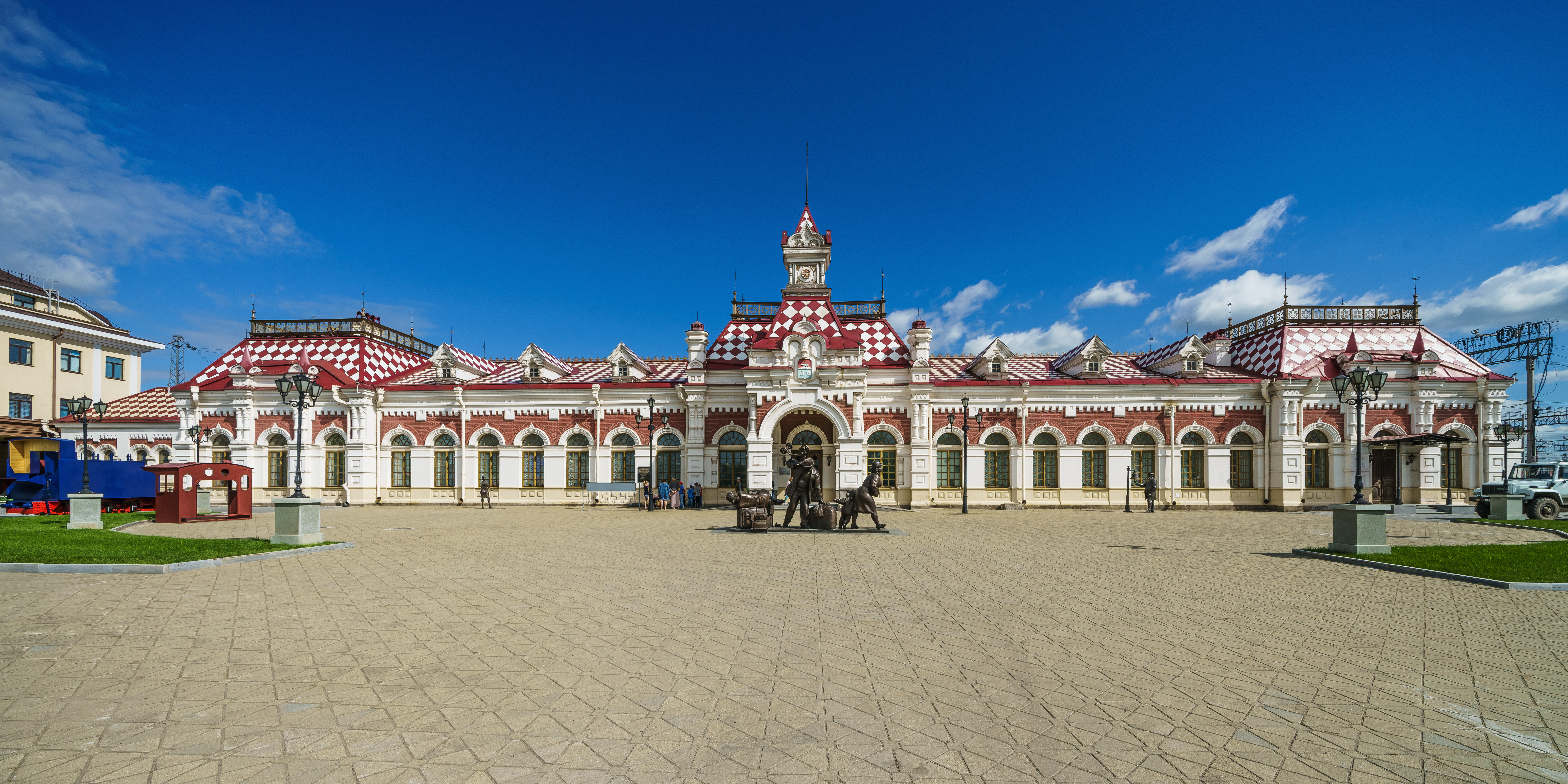 Old railway station at Ekb-Passazhirsky in Ekaterinburg, Russia